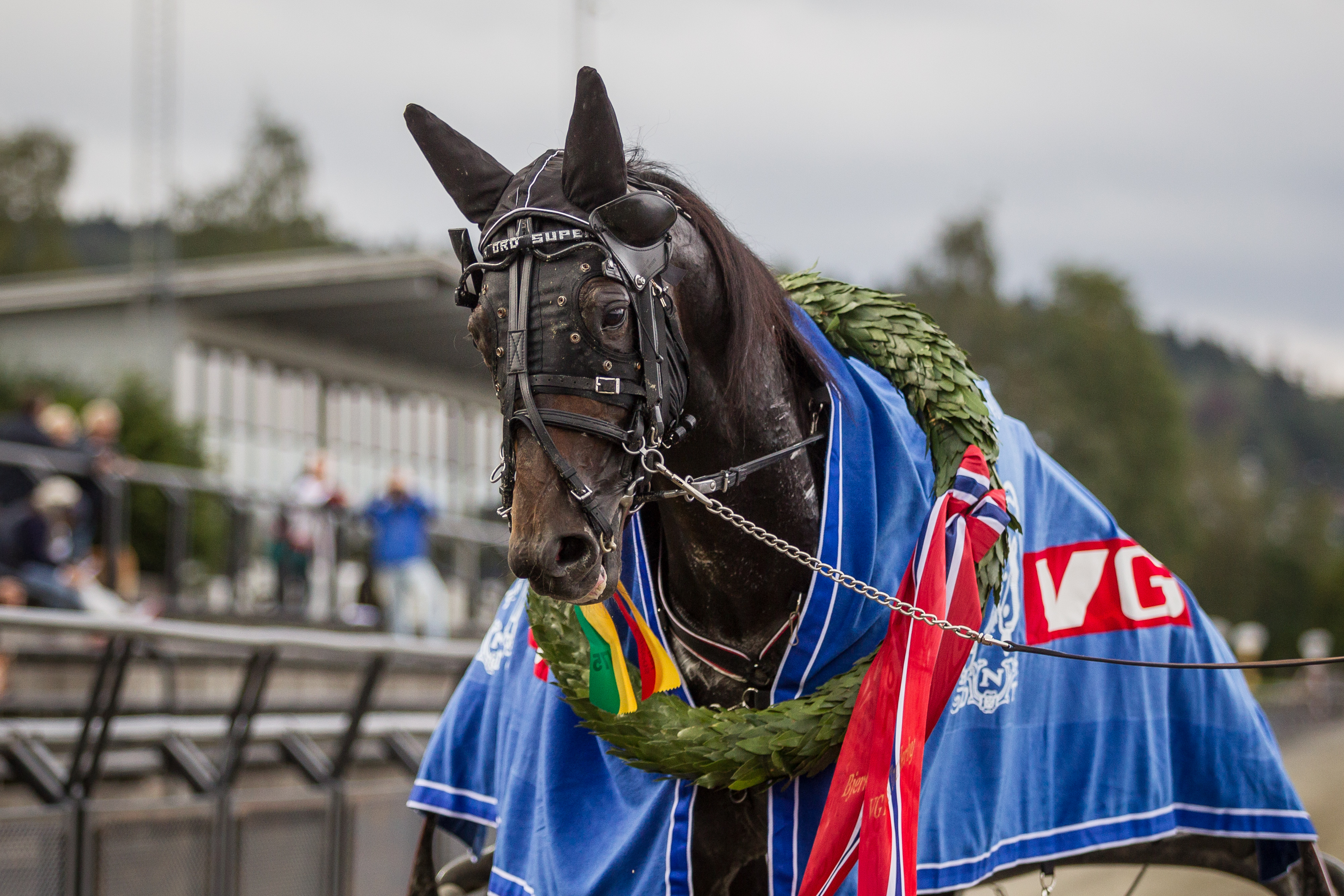 Glen Ord Superb after winning Norsk Travderby 2015-09-13 at Bjerke Travbane.